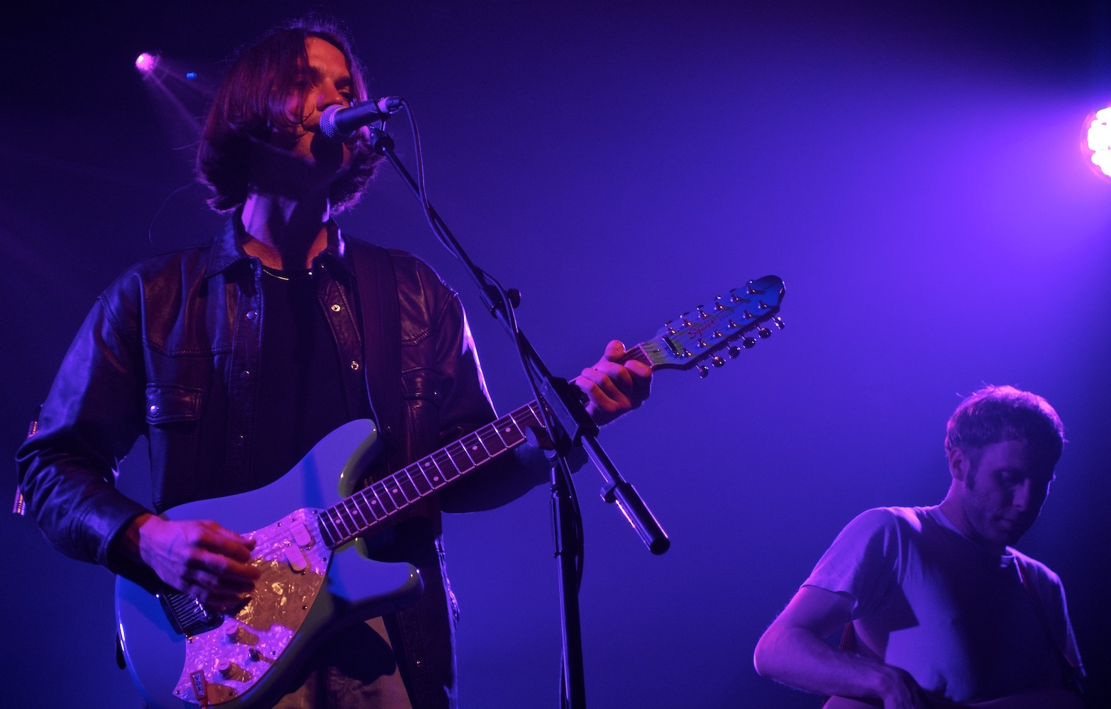 Younghusband live in concert